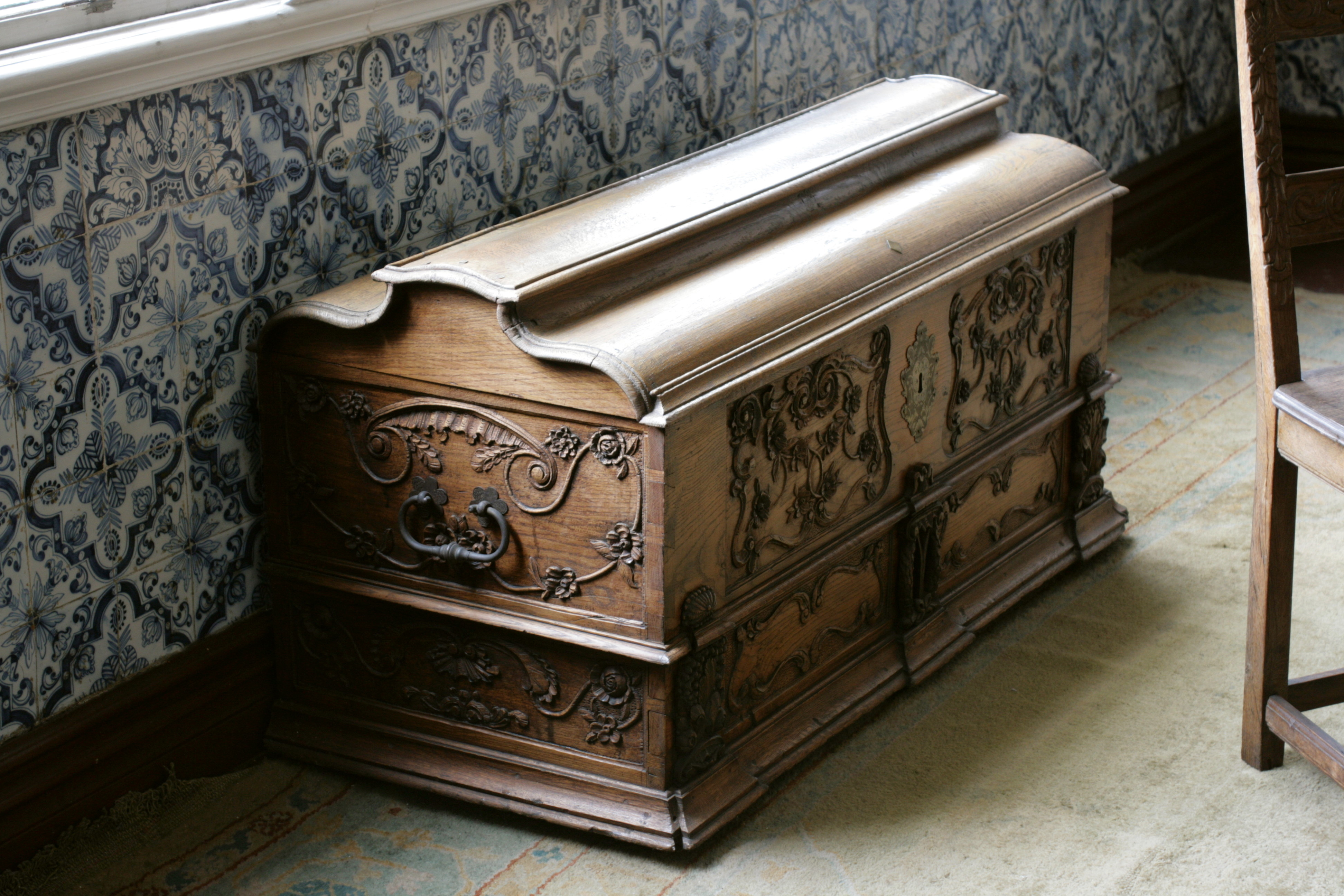 Haus Cleff, Cleffstraße 2 in Remscheid